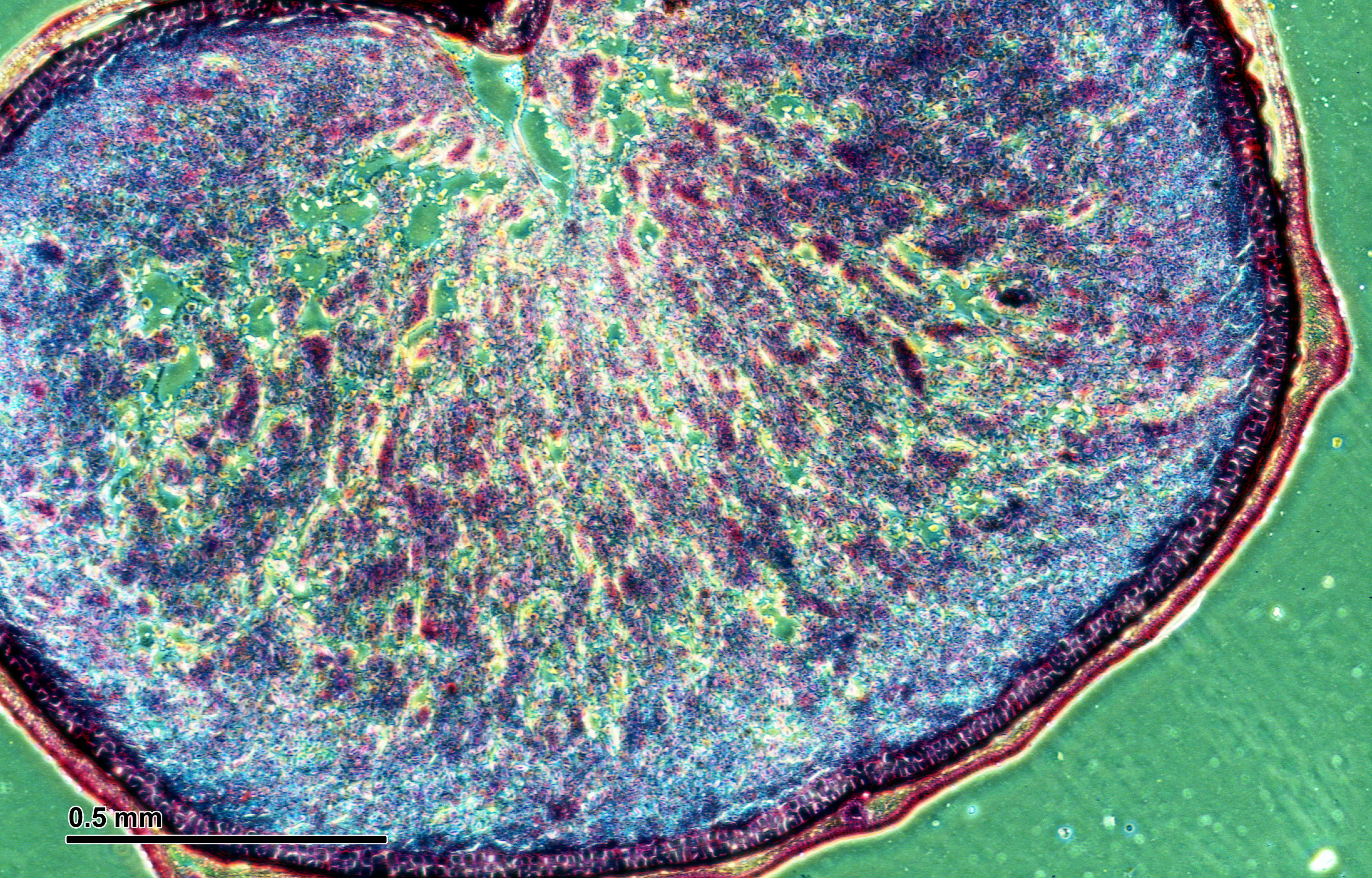 Caryopsis (grain) (Caryopsis): Cross-section. Optical microscopy technique: Negative phase contrast. Magnification: 120x (for picture width 26 cm ~ A4 format).